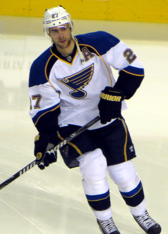 St. Louis Blues defenceman Alex Pietrangelo prior to a National Hockey League game in Calgary.